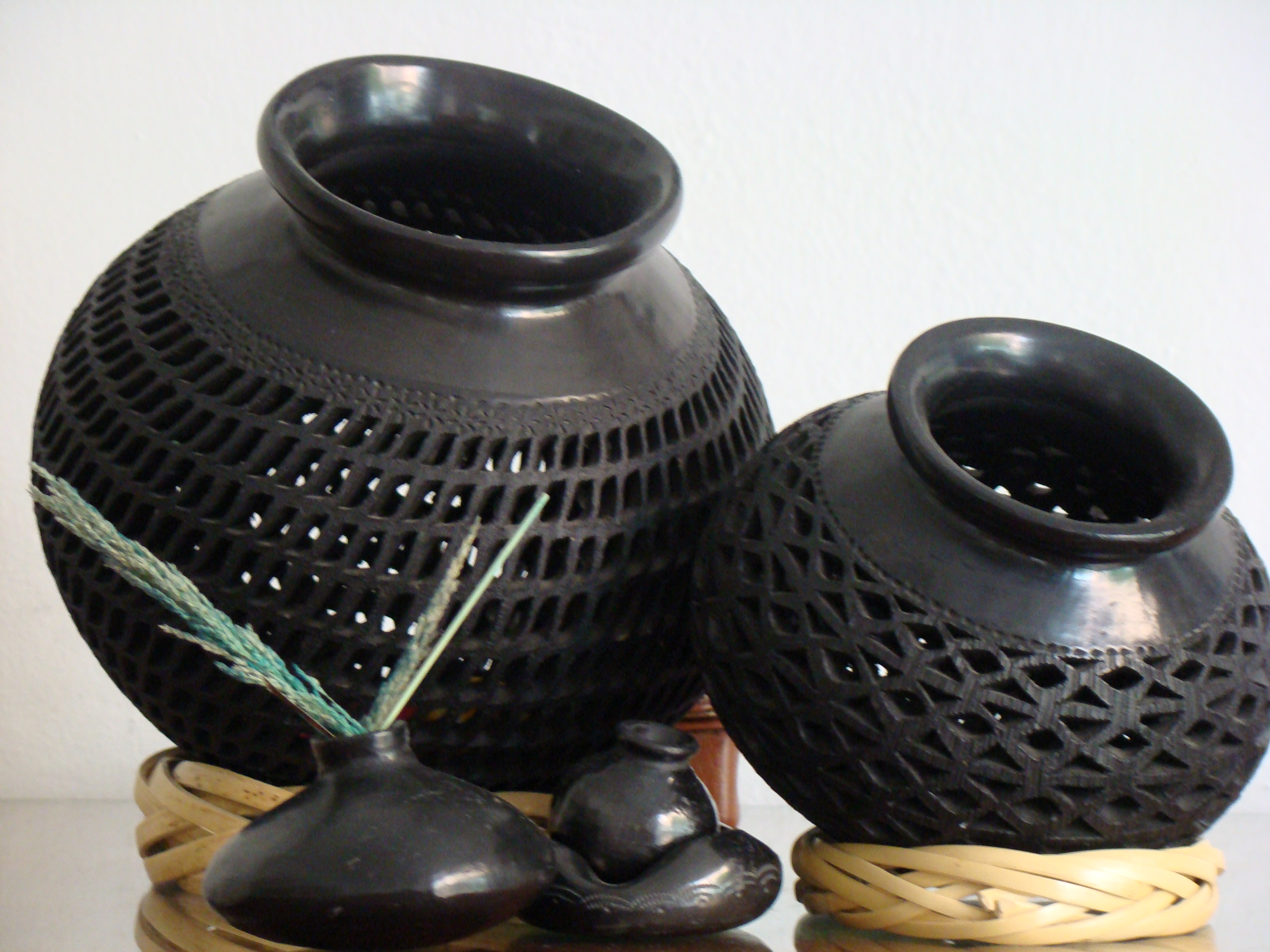 Pots made of black clay, polished before it i is furnaced, from San Bartolo Coyotepec, Oaxaca, Mexico.